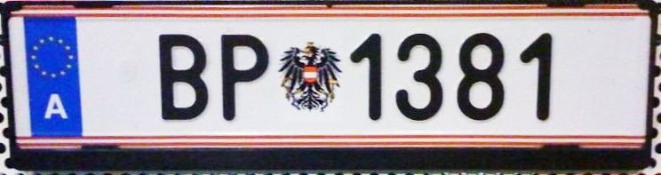 License plate of the Austria Police (old version, no longer issued)